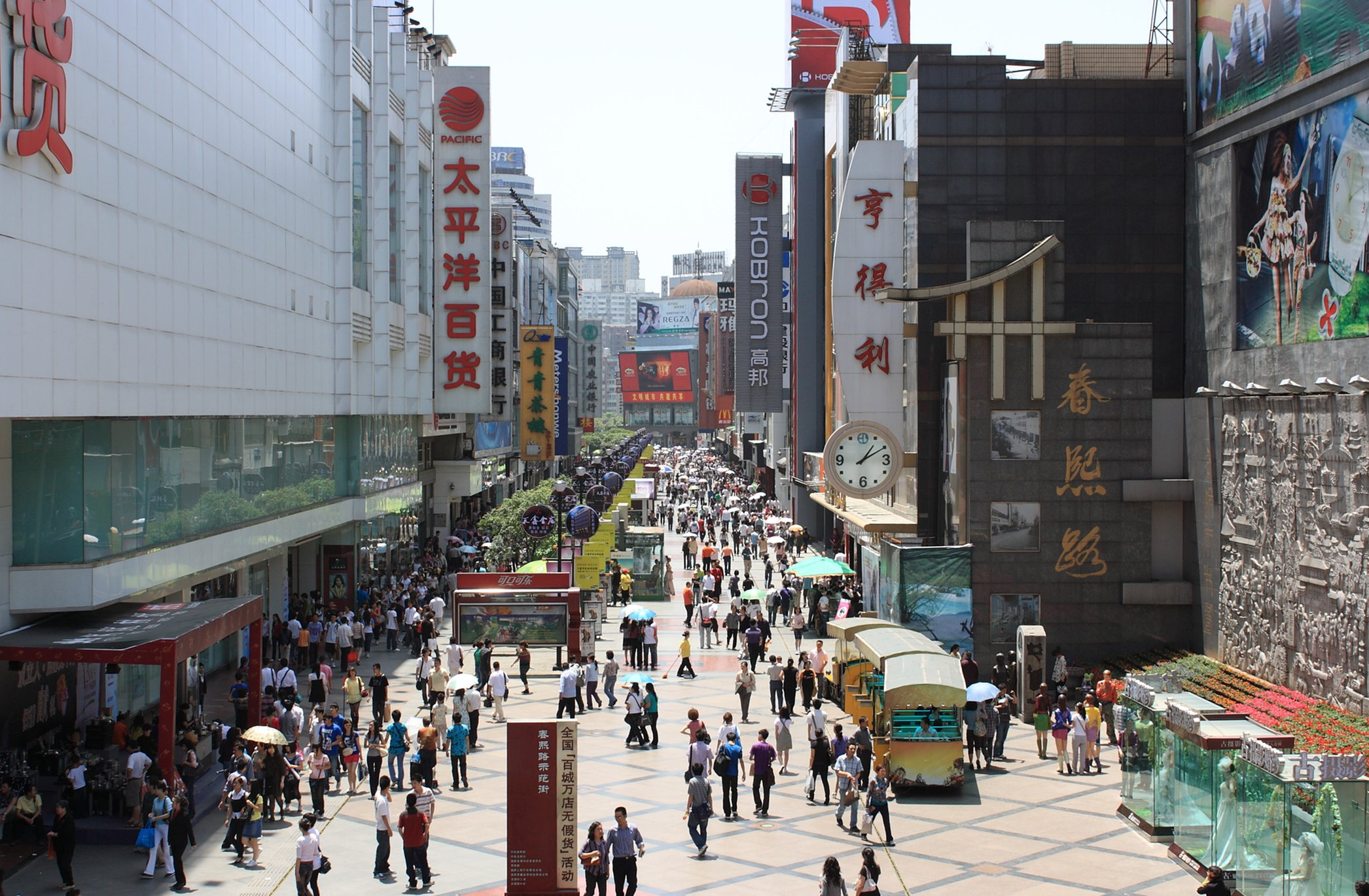 Chunxi Road seen from viaduct, Chengdu, China